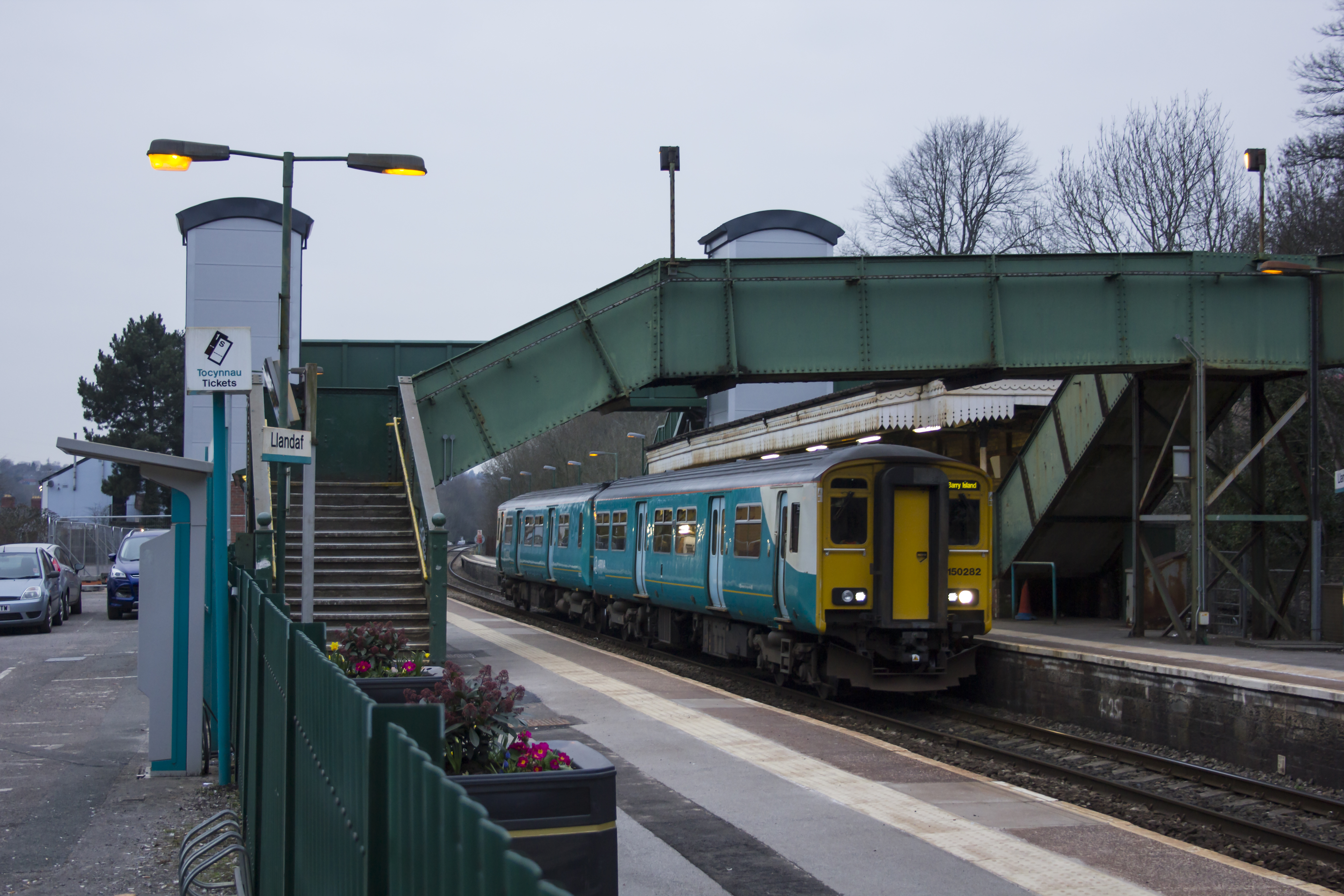 Arriva Trains Wales Class 150 DMU 150282 stands at Llandaf station in north Cardiff while working the 2Y77 1722 Aberdare to Barry Island service. The green station footbridge in the foreground is on borrowed time, and is due to be replaced by the new structure in the background in the near future.